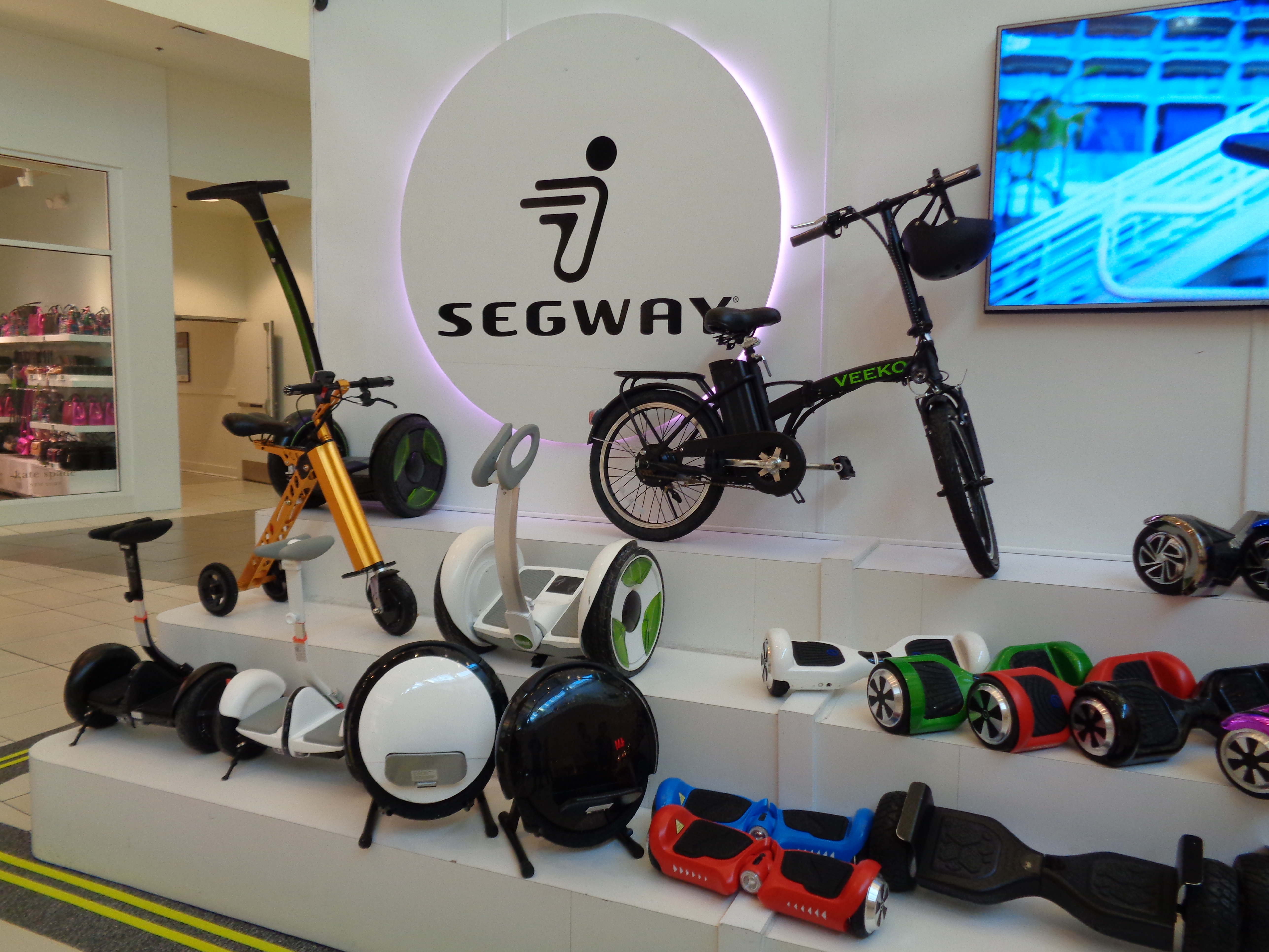 A stand for Segway Inc. products including Segways and hoverboards inside The Mills at Jersey Gardens mall in Elizabeth, New Jersey.